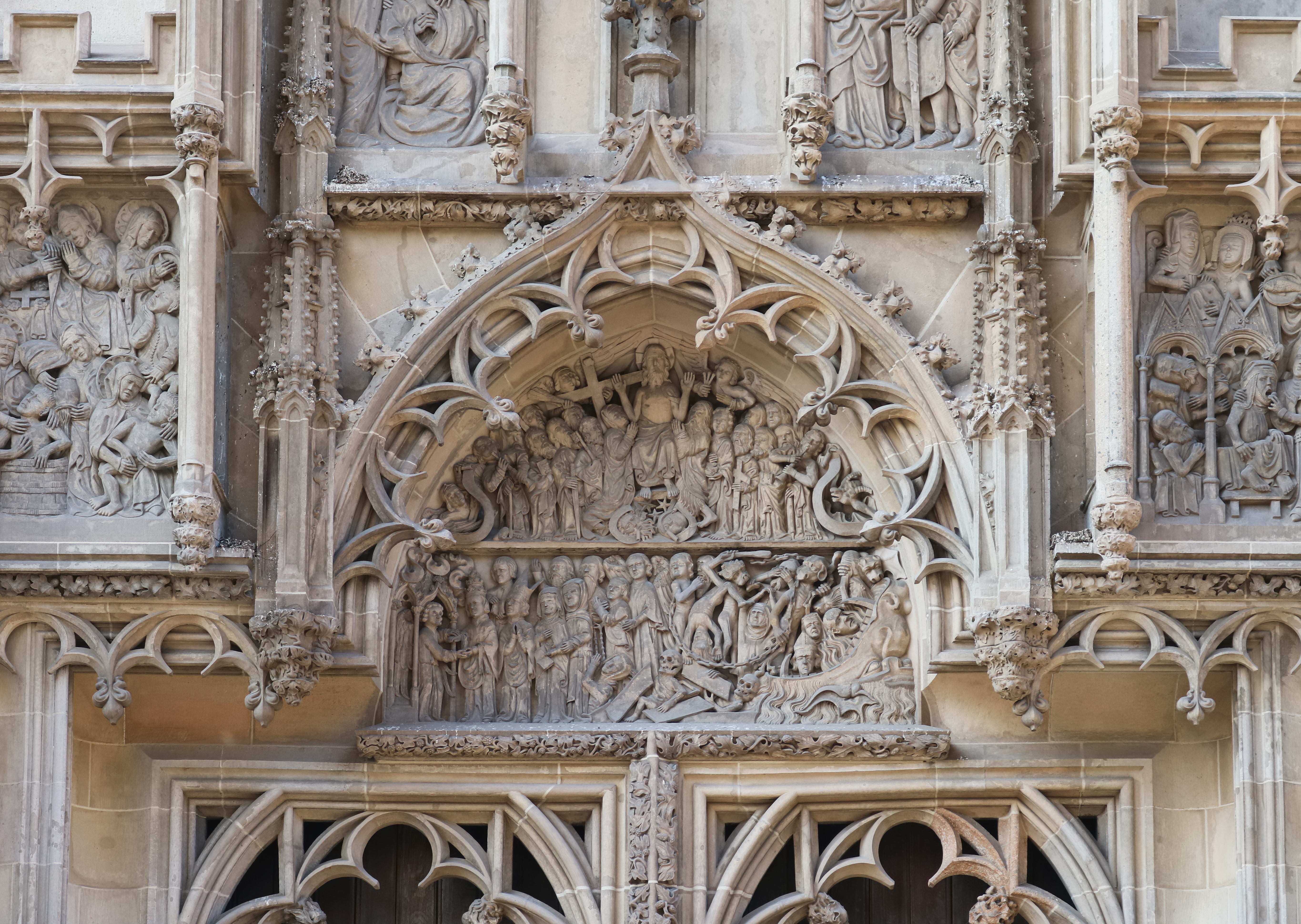 St Elisabeth Cathedral in Košice / Top of North Portal